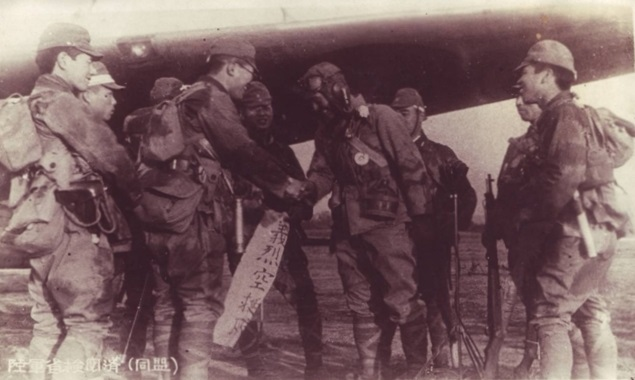 Giretsu Airborne Unit - Michiro Okuyama & Chuichi Suwabe